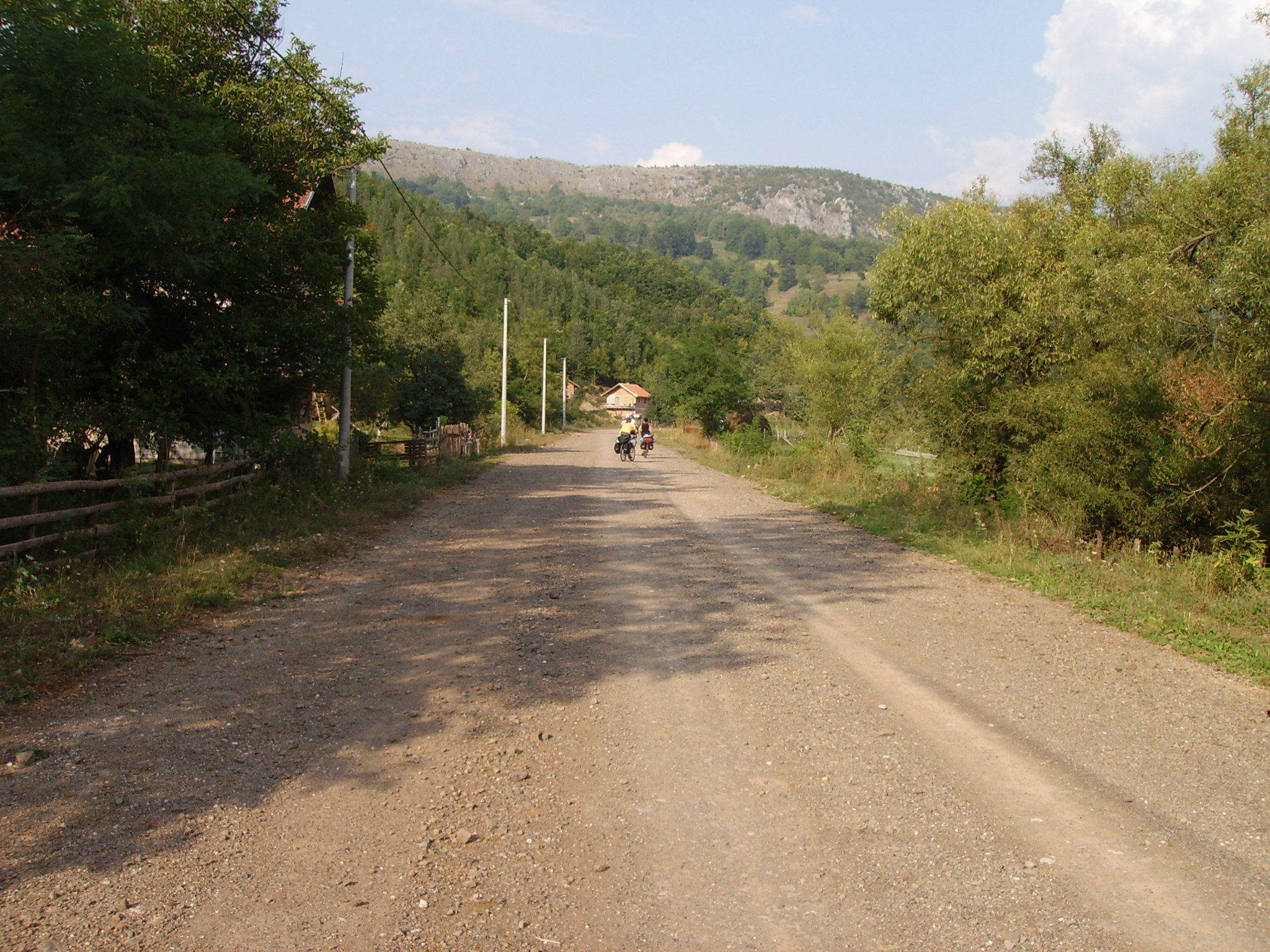 Bosnia, road M5 in the valley of River Prača near Renovica.